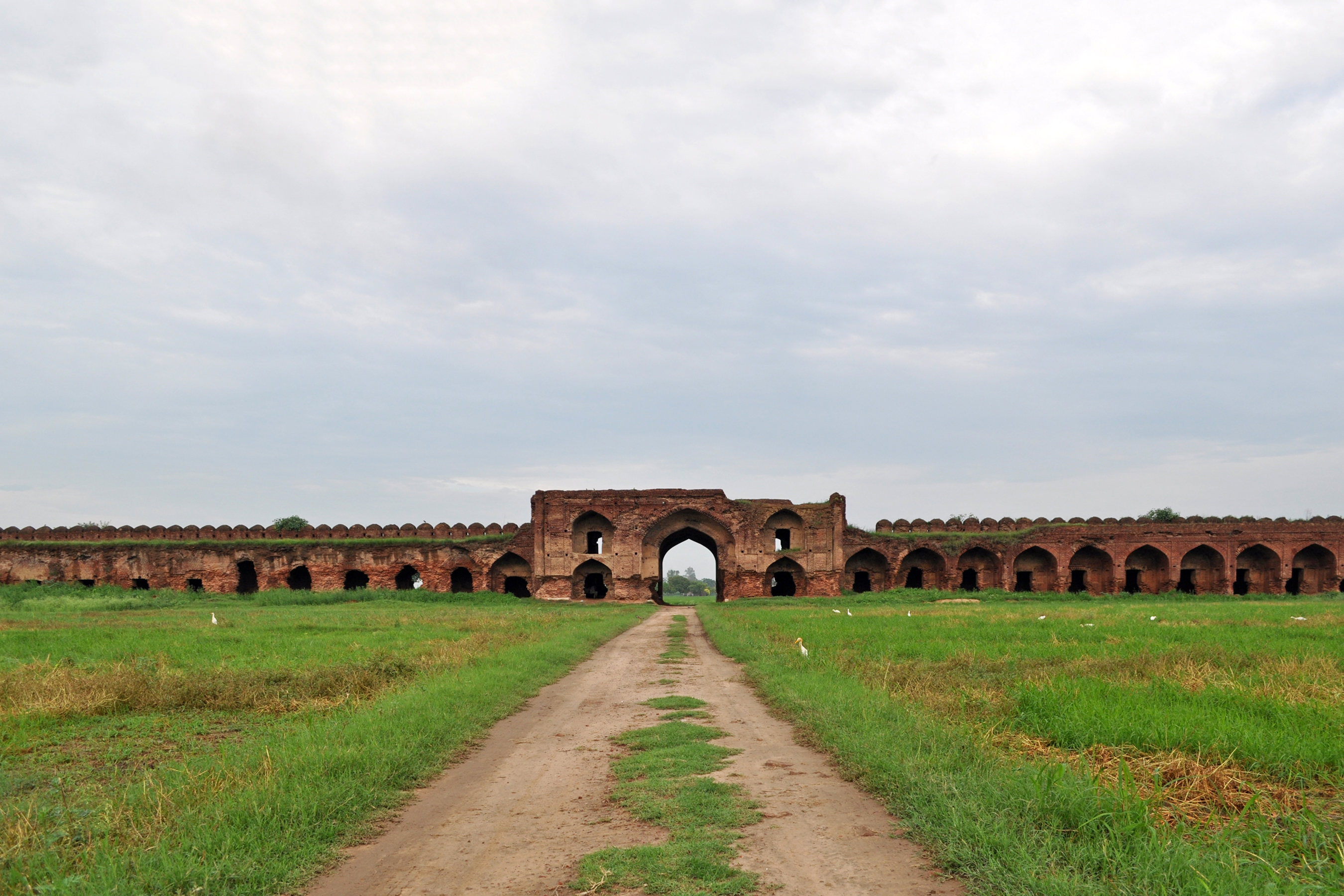 also known as 'Mughal Serai' near Doraha in Ludhiana district